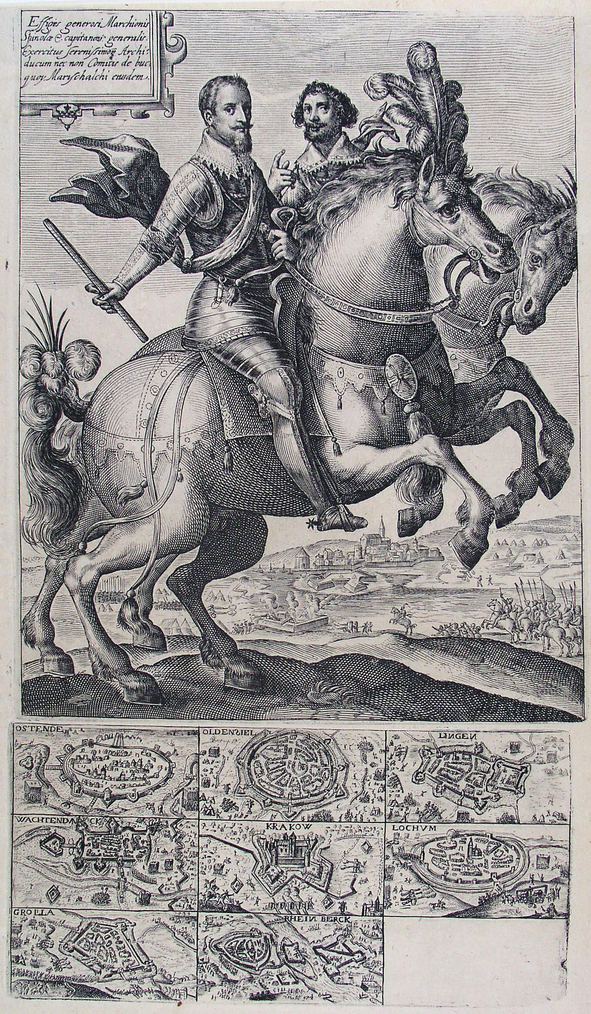 Conquests of Ambrosio Spinola, including: Ostend, Oldenzaal, Lingen, Wachtendonk, Krakow, Lochem, Groenlo, Rheinberg. Engraving. 215 × 173 mm. Rotterdam, Museum Boijmans Van Beuningen (inv.no. BdH 15230 (PK)).